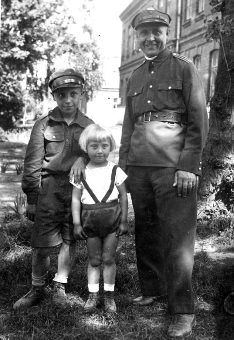 Pre WW2 picture of Czesław Kurowski and his 2 sons.